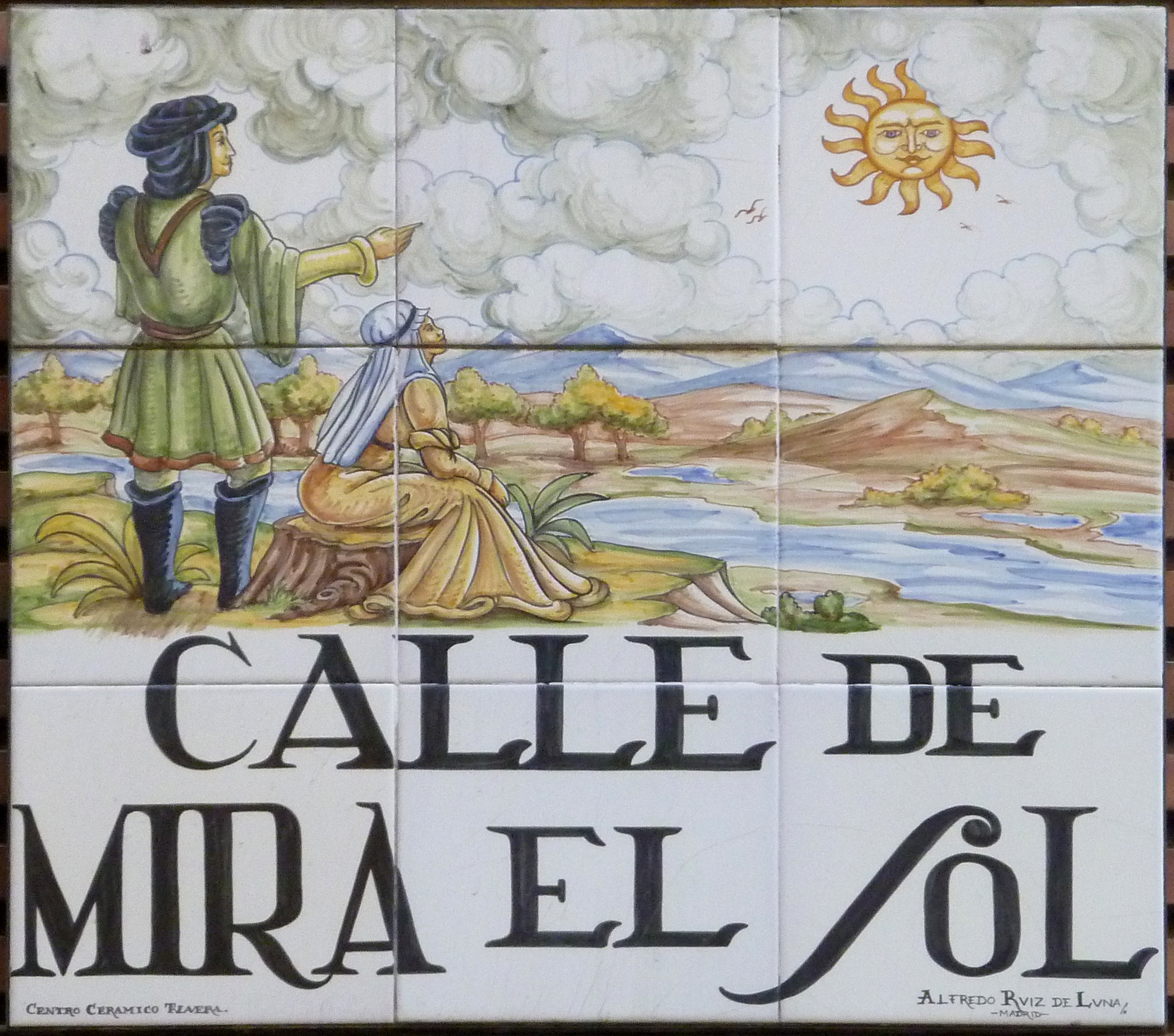 Sign of Calle de mira el sol (literally "Street of «look, the sun»") in Embajadores neighborhood in Madrid (Spain).